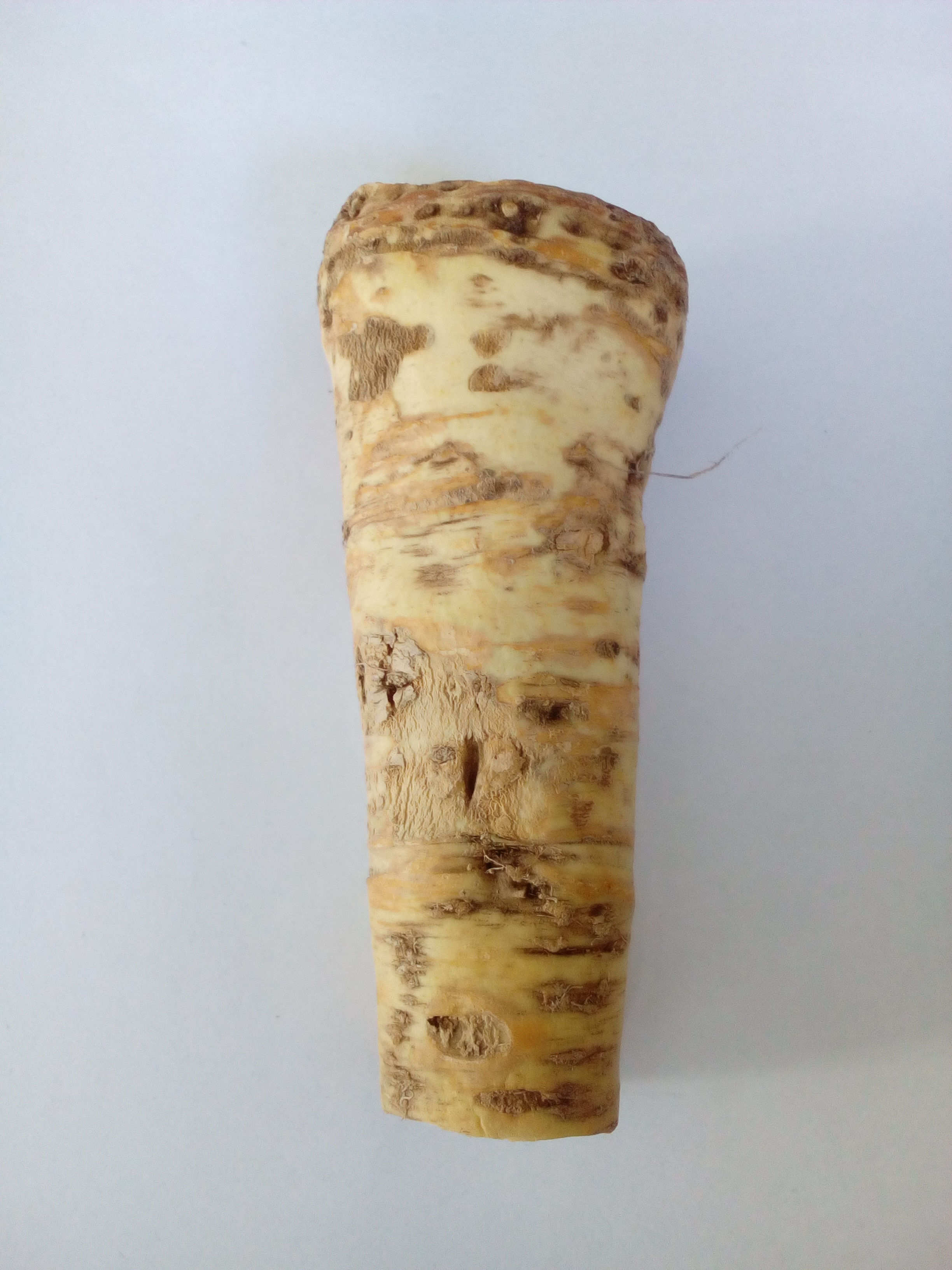 Horseradish